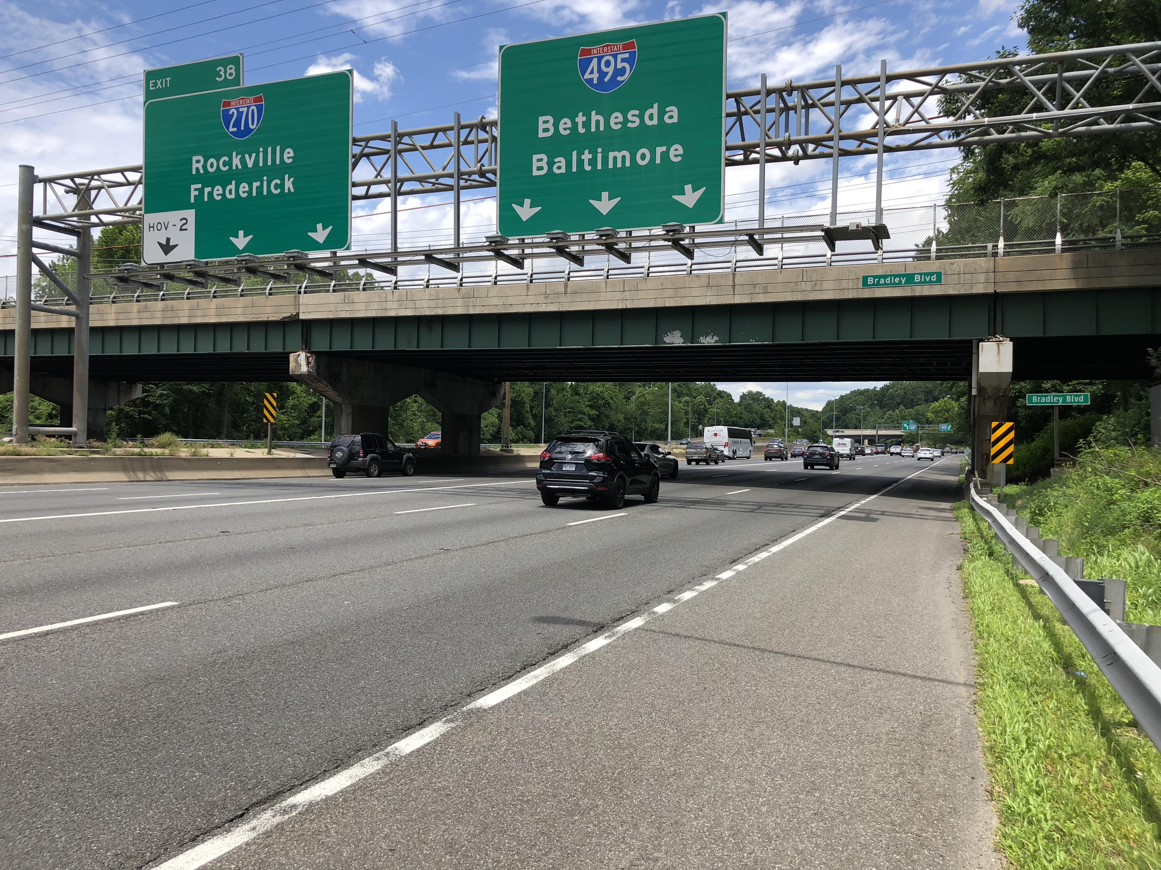 View north along the inner loop of the Capital Beltway (Interstate 495) 1/4 mile south of Exit 38 (Interstate 270, Rockville, Frederick) on the edge of Potomac and Bethesda in Montgomery County, Maryland